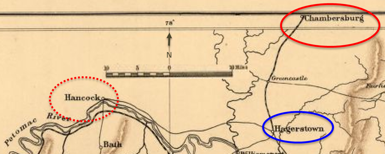 The map shows important points during the beginning of Confederate General John McCausland’s raid on Chambersburg, Pennsylvania, and the immediate period after. McCausland was pursued by Union General William W. Averell. These U.S. Civil War events took place during late July and early August 1864.